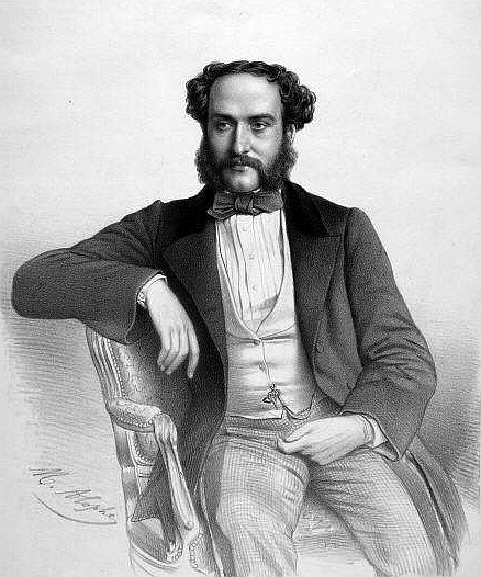 French pianist and composer Georges Mathias (Georges-Amédée-Saint-Clair Mathias, 1826-1910). Portrait by Marie-Alexandre Alophe (1812-1883).